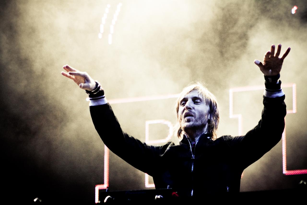 David Guetta, parisian disc jockey, partying during his One Love Tour at Mexico.